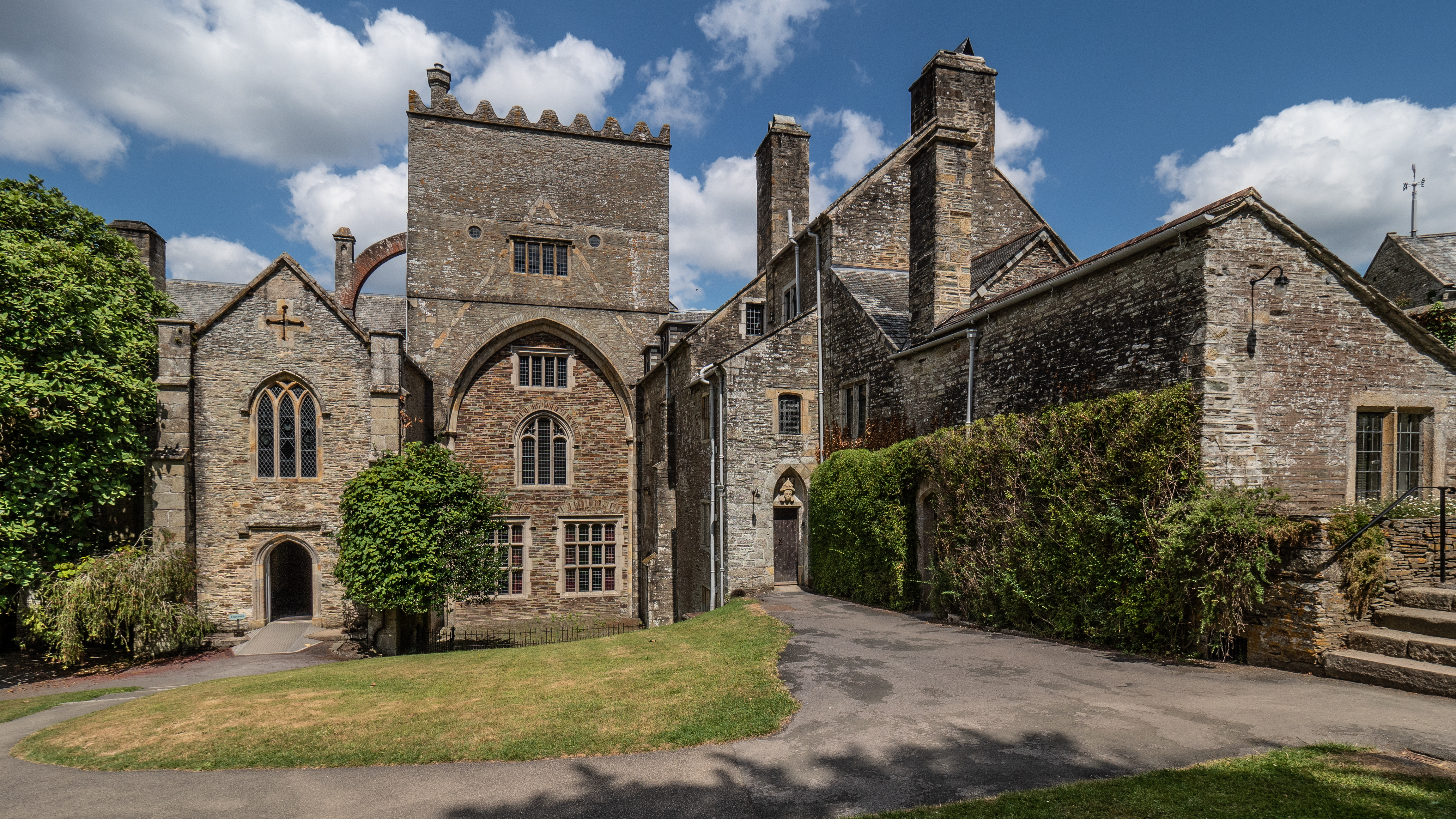 Buckland Abbey in Buckland Monachorum close to Plymouth